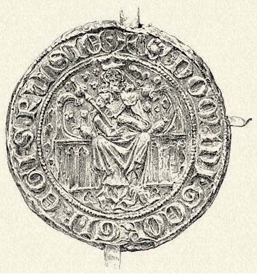 Boleslaw-Yuri II of Galicia